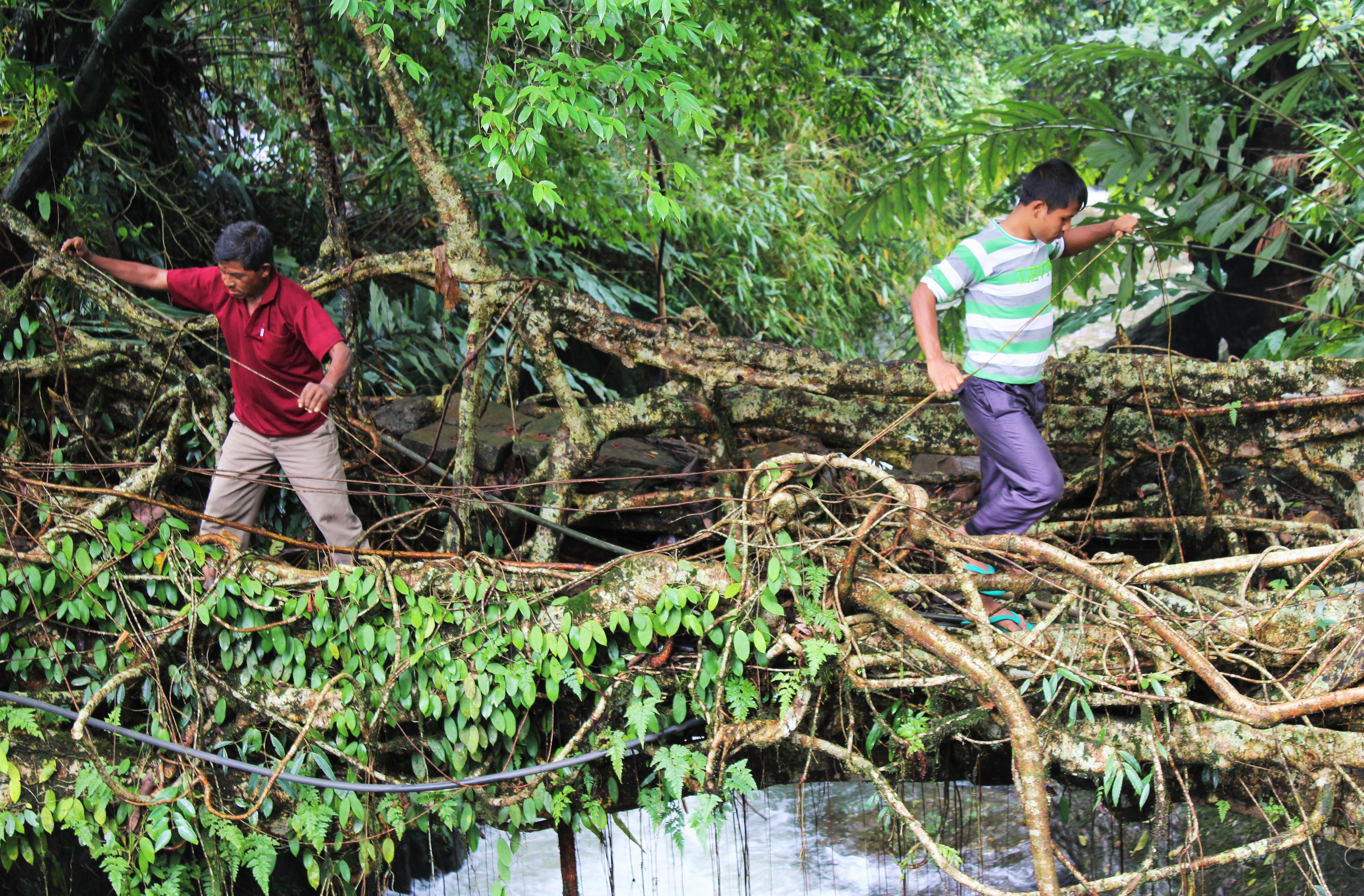 Living root bridge being grown by hand. Burma village. Meghalaya